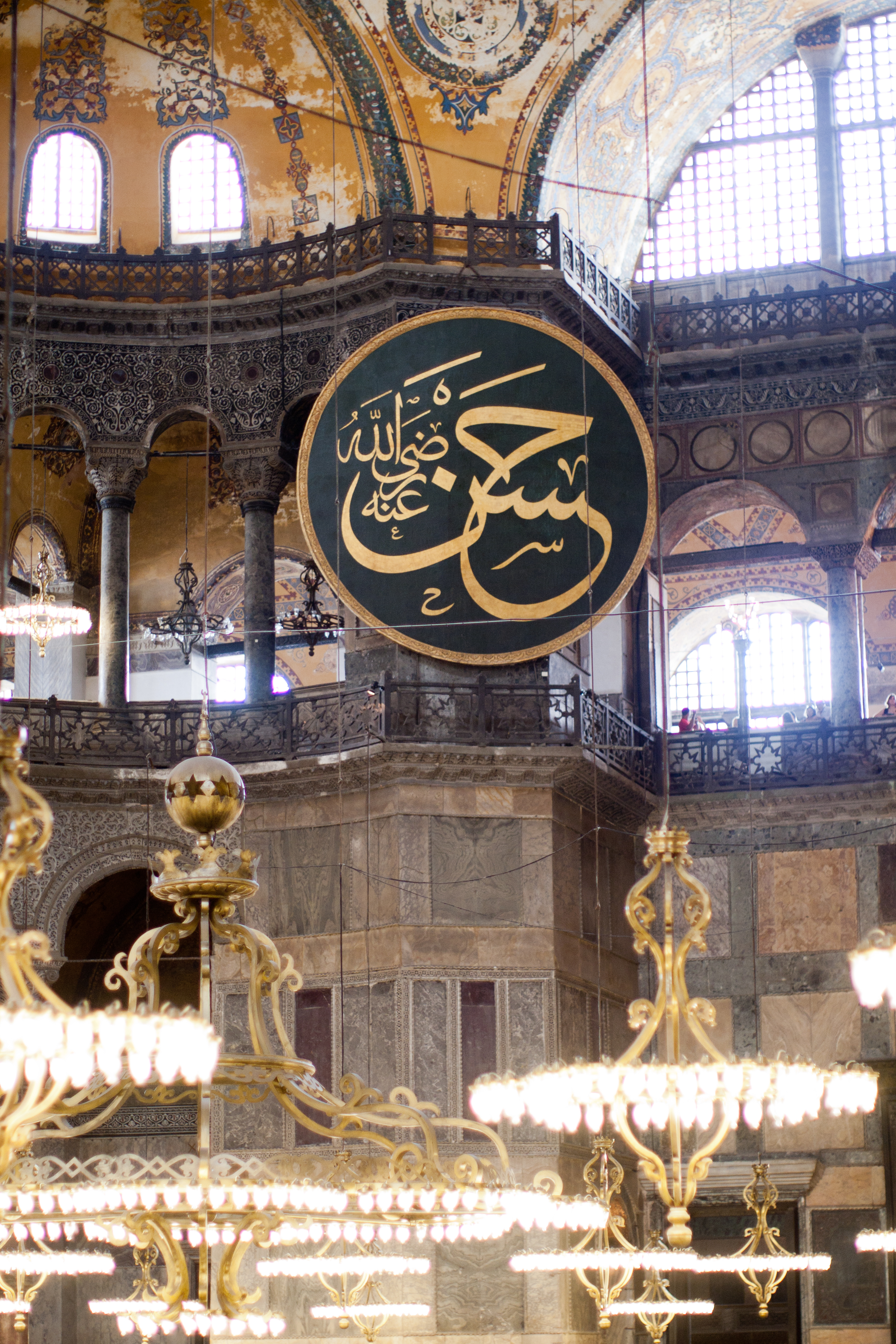 Islamic symbol in Hagia Sophia, Istanbul